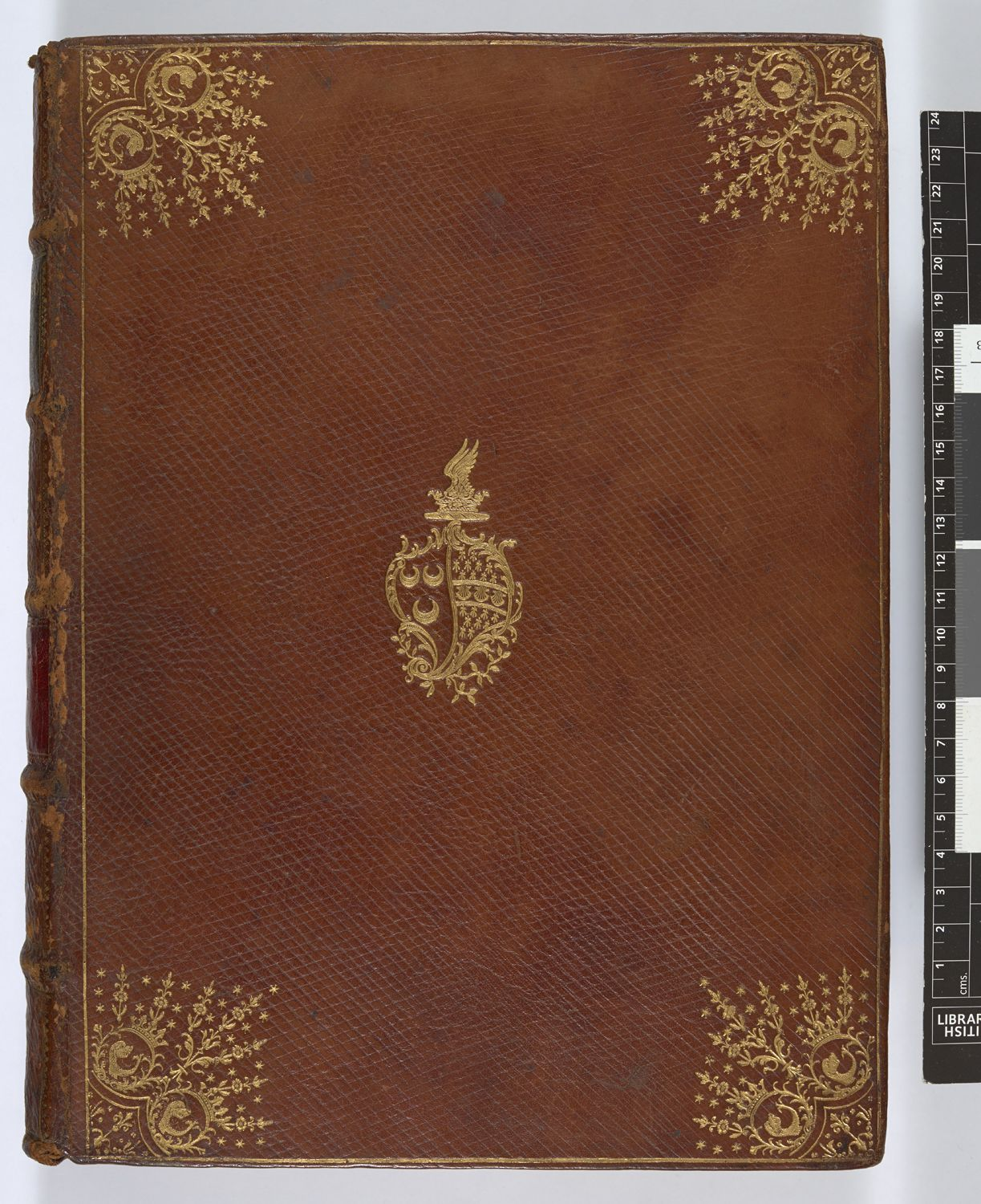 Style: Armorial|Cornerpiece made of small tools|Diced|Dolphin motif; Caption: Upper cover; Colour: Brown; Edge: Unspecified